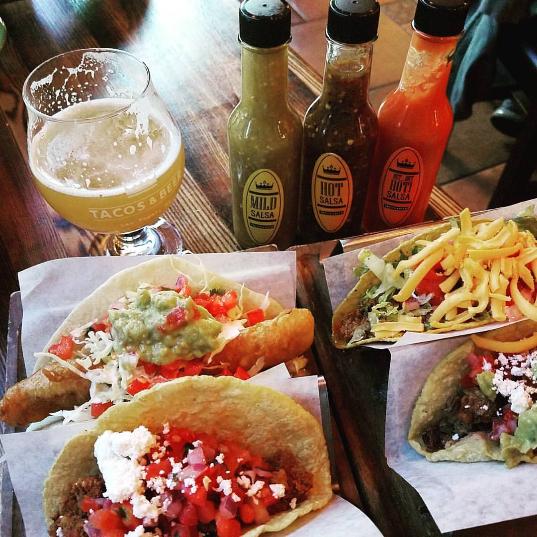 Lunch of tacos and beer at the aptly-named Tacos & Beer in Las Vegas.